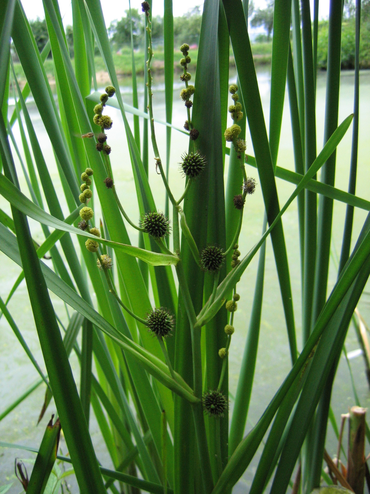 Sparganium erectum inflorescence, plant on the shore of a smaller pond in Sołtysowicki Forest, Wrocław, Poland.